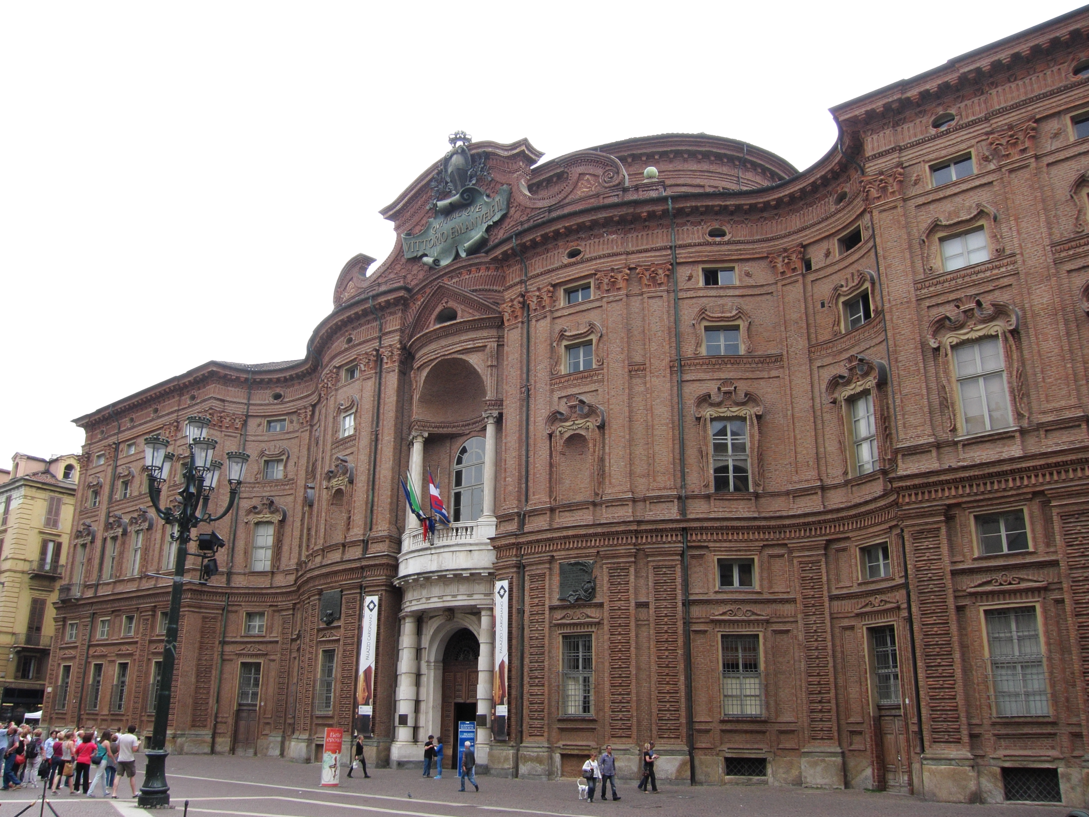 Palazzo Carignano, western façade of the 17th century, at the Piazza Carignano, Torino